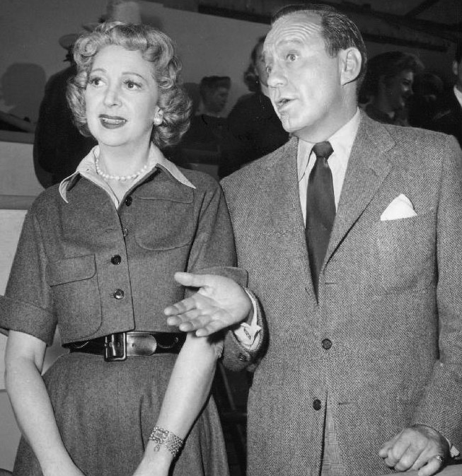 Publicity photo of Jack Benny and wife Mary Livingstone.